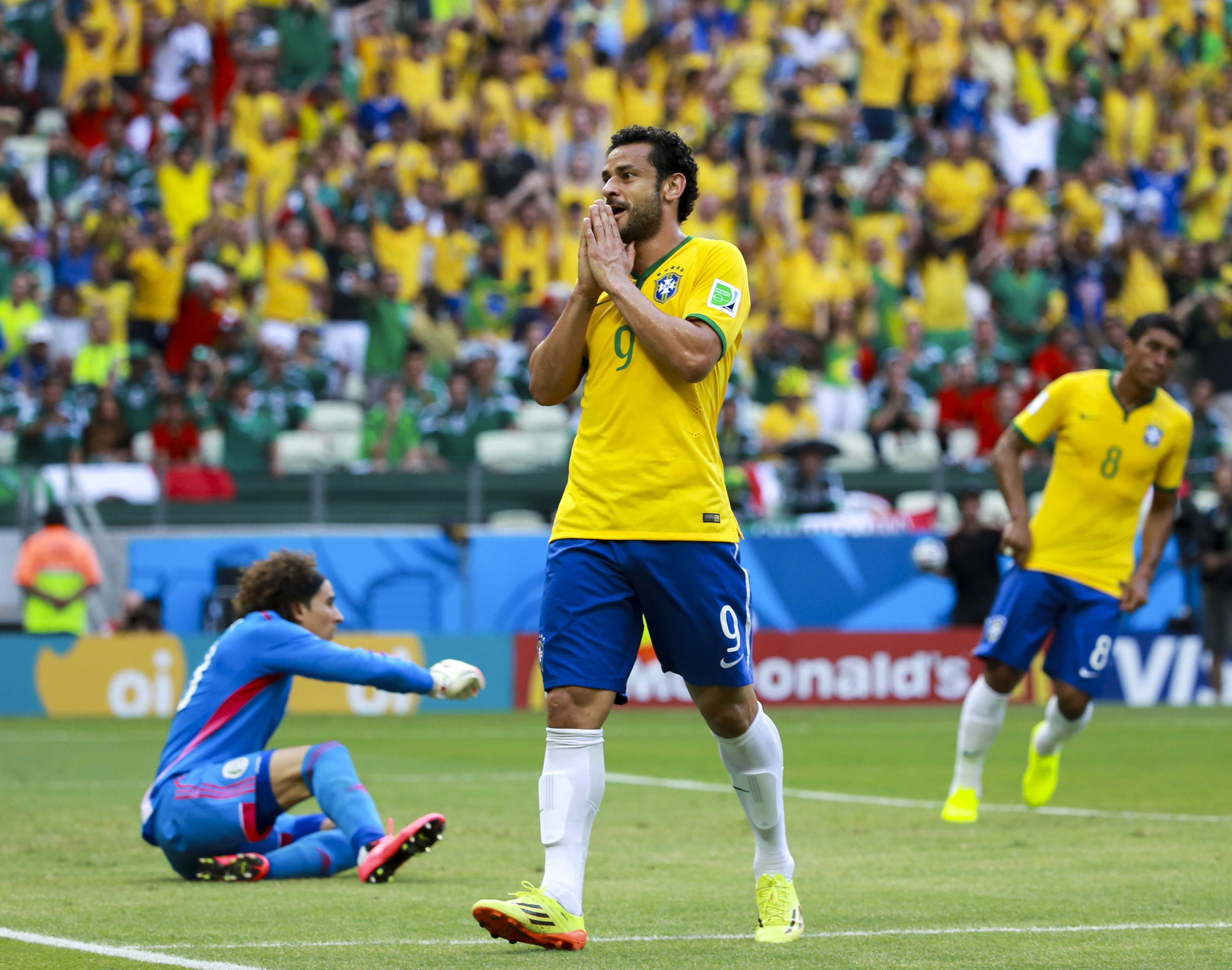 Brazil and Mexico match at the FIFA World Cup 2014-06-17